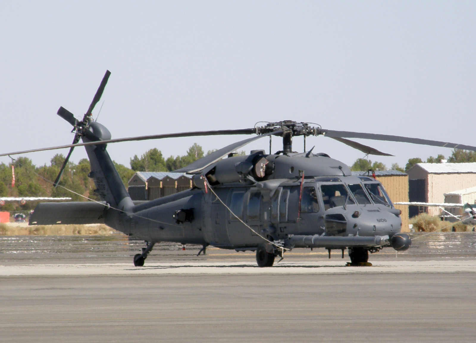 US Air Force MH-60 Blackhawk, Fox Field, Lancaster, California